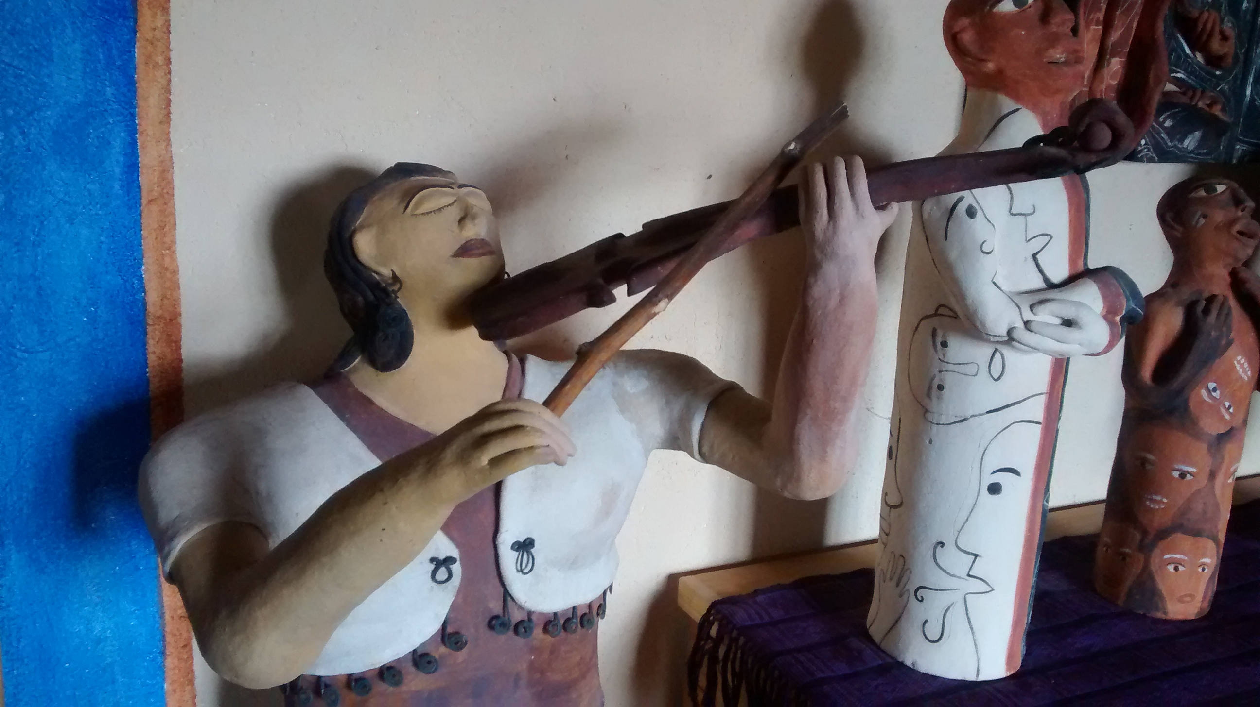 Artwork by Maricela Gómez